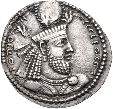 Coin of Narseh.